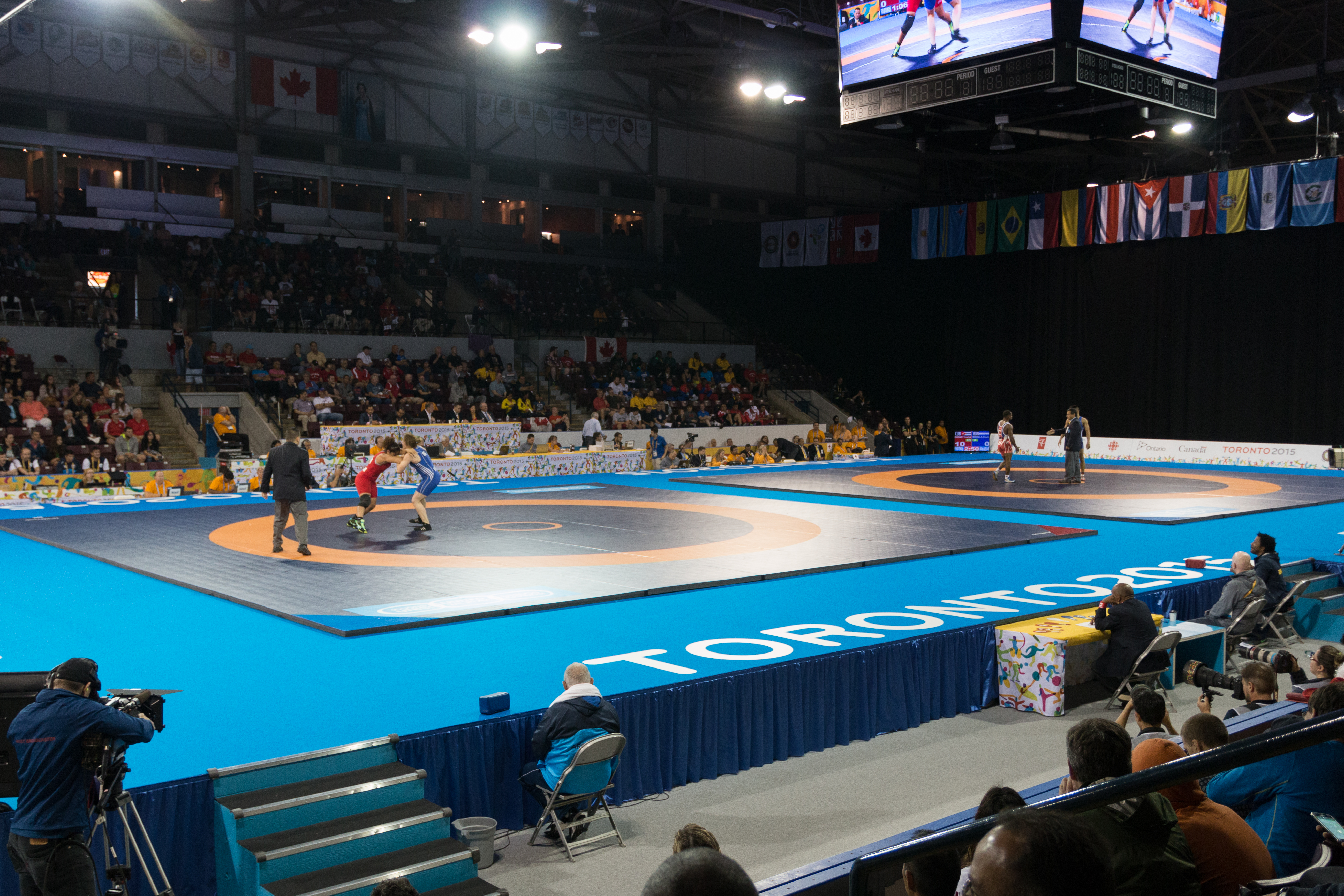 The Hershey Centre in Mississauga, ON as set up for contact sports such as wrestling